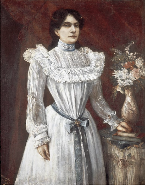 Portrait of Amelia Francasci